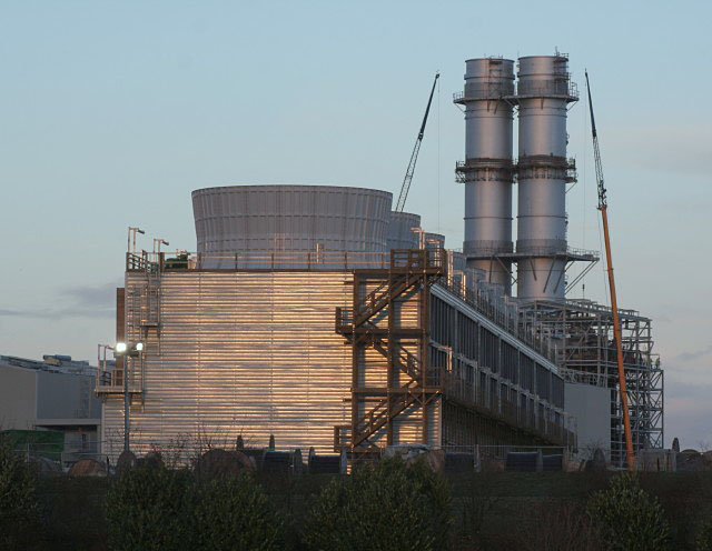 Staythorpe Power Station A cooling tower block with generating units with the chimneys beyond.